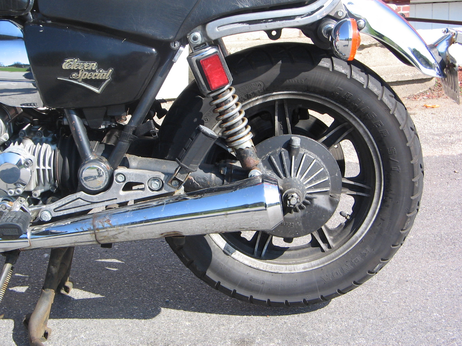 Shaft drive from a Yamaha XS Eleven